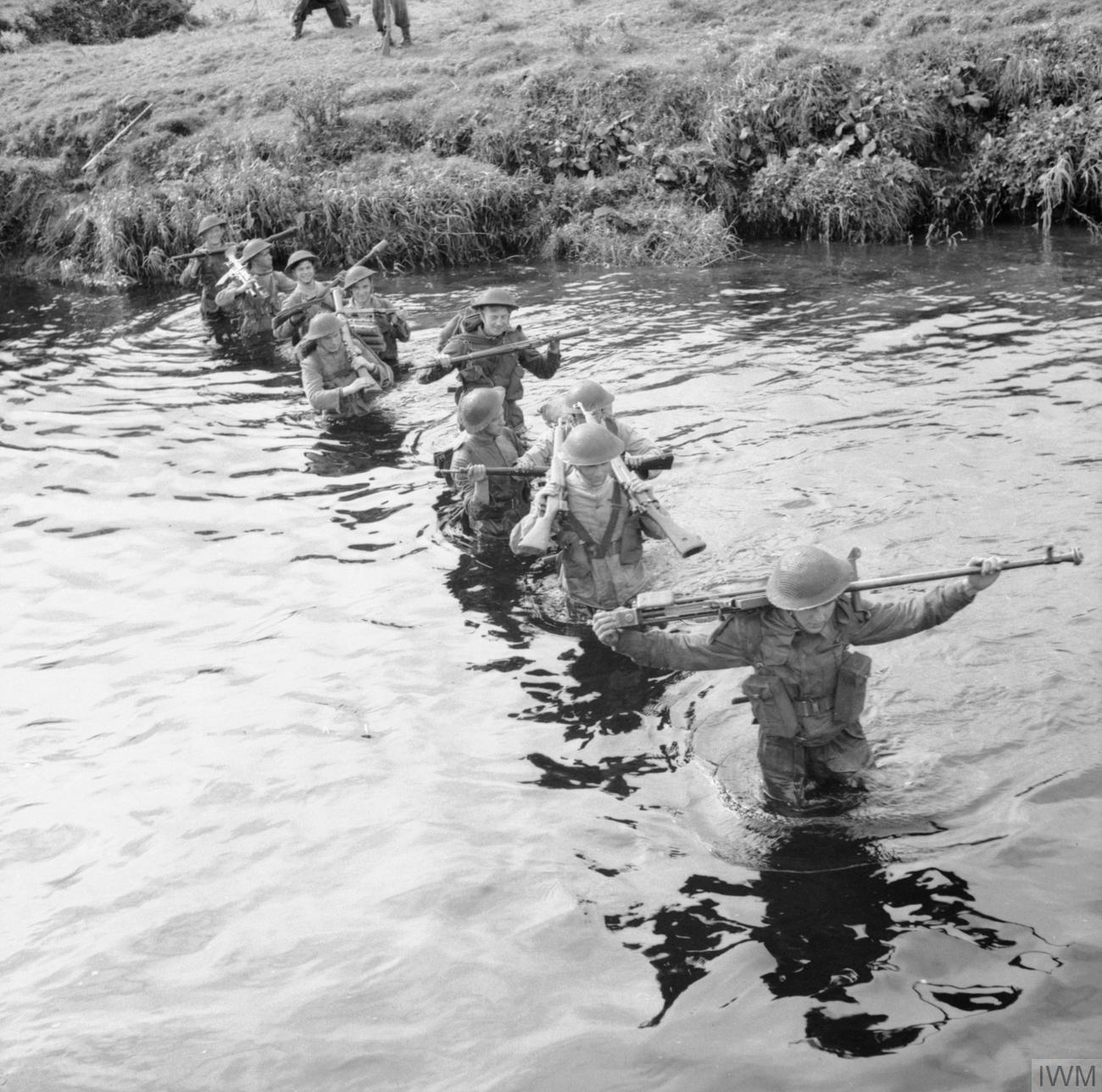 The British Army in the United Kingdom 1939-45 Infantry from 9th Battalion, Royal Warwickshire Regiment, wading across a stream, Northern Ireland, 11 September 1942. The leading man is carrying a Boys anti-tank rifle.